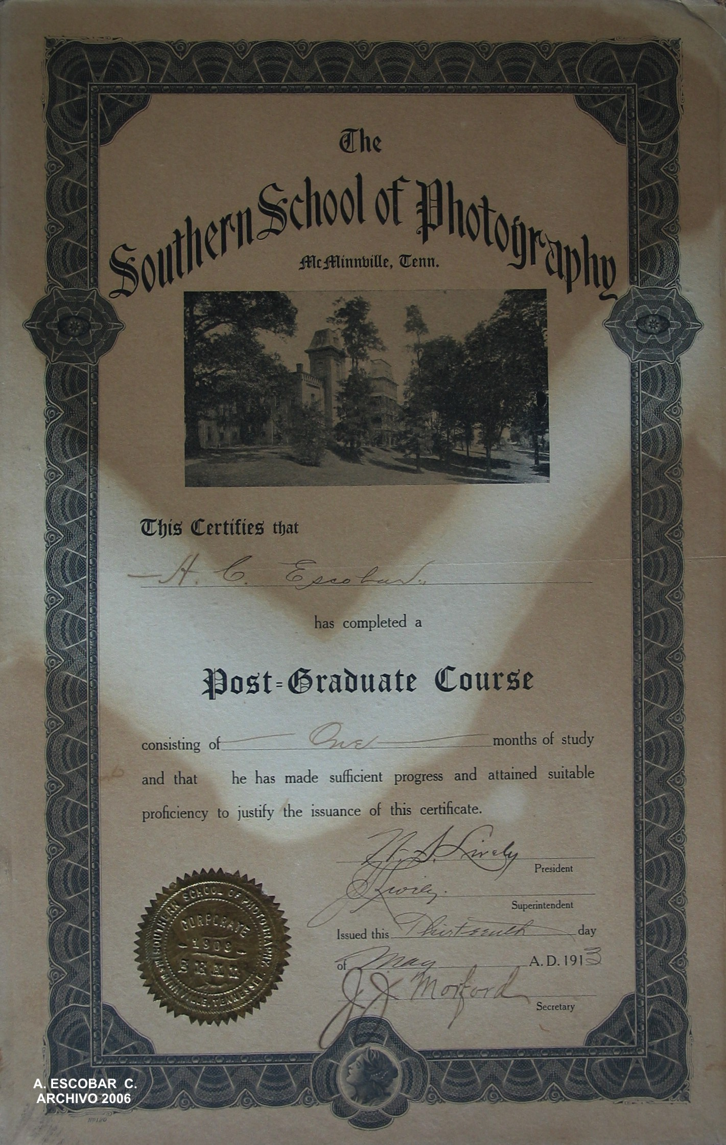 A. Escobar's Souther school of Photography diploma, 1913